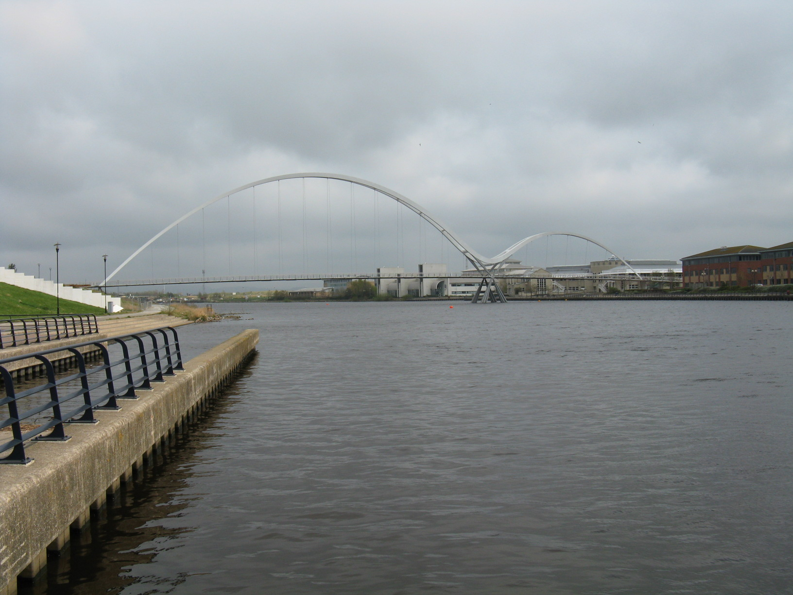 Ian Gould Bridge flowing over Cathys River.